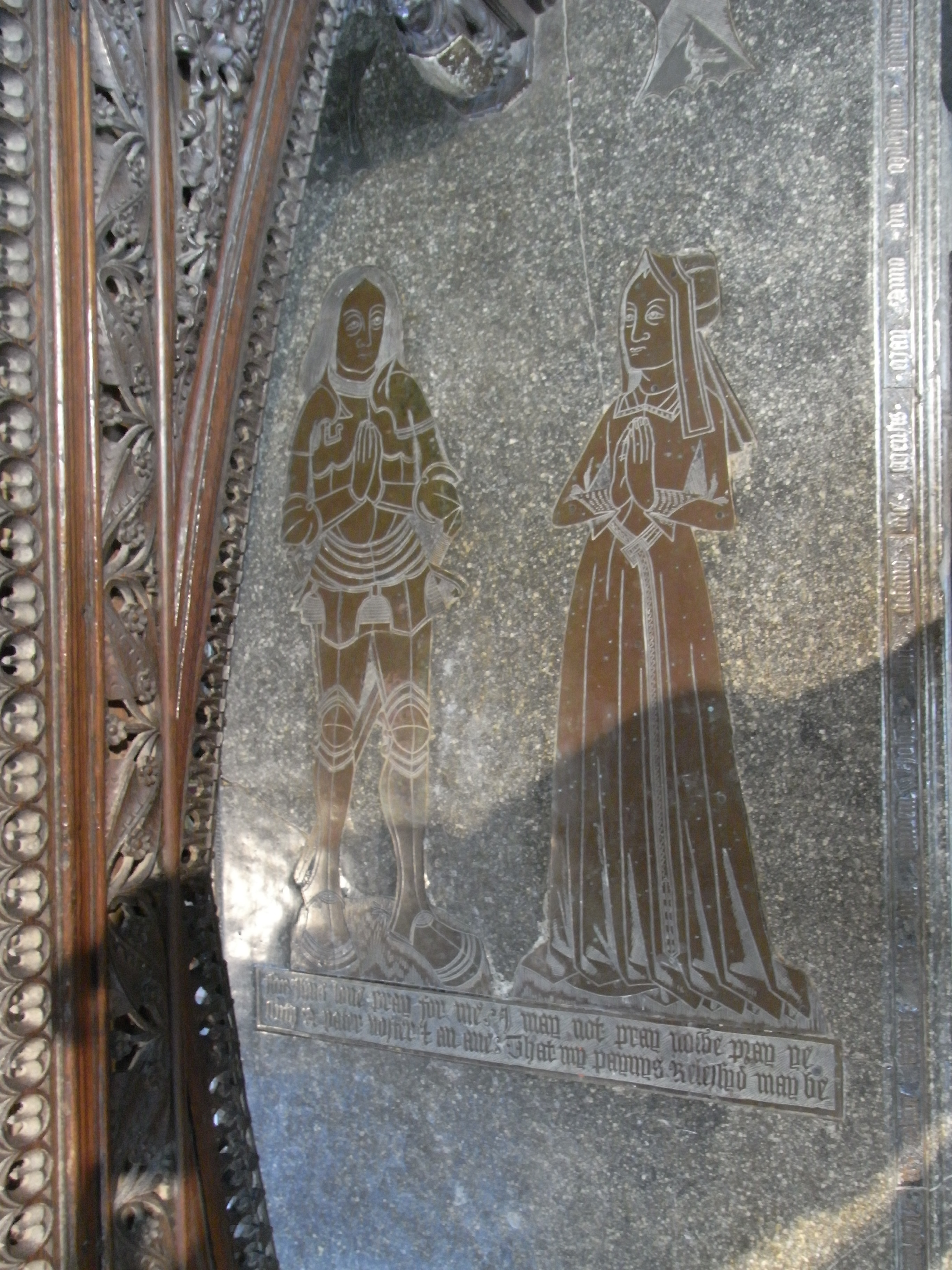 St Mary's parish church, Fairford, Gloucestershire: monumental brass to John Tame (died 1500) and his wife Alice Twynyho